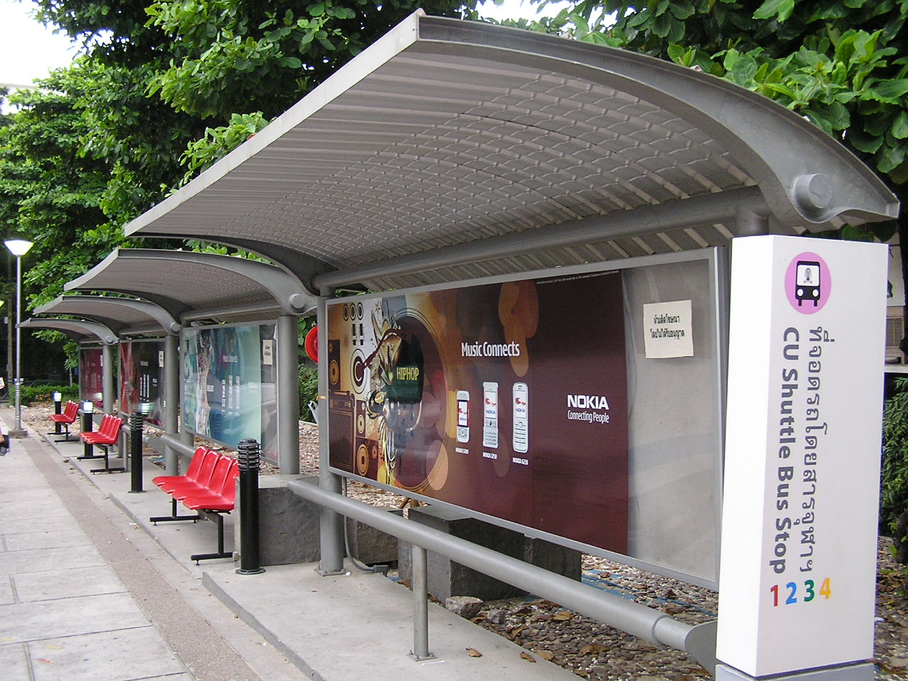 Chulalongkorn University bus stop